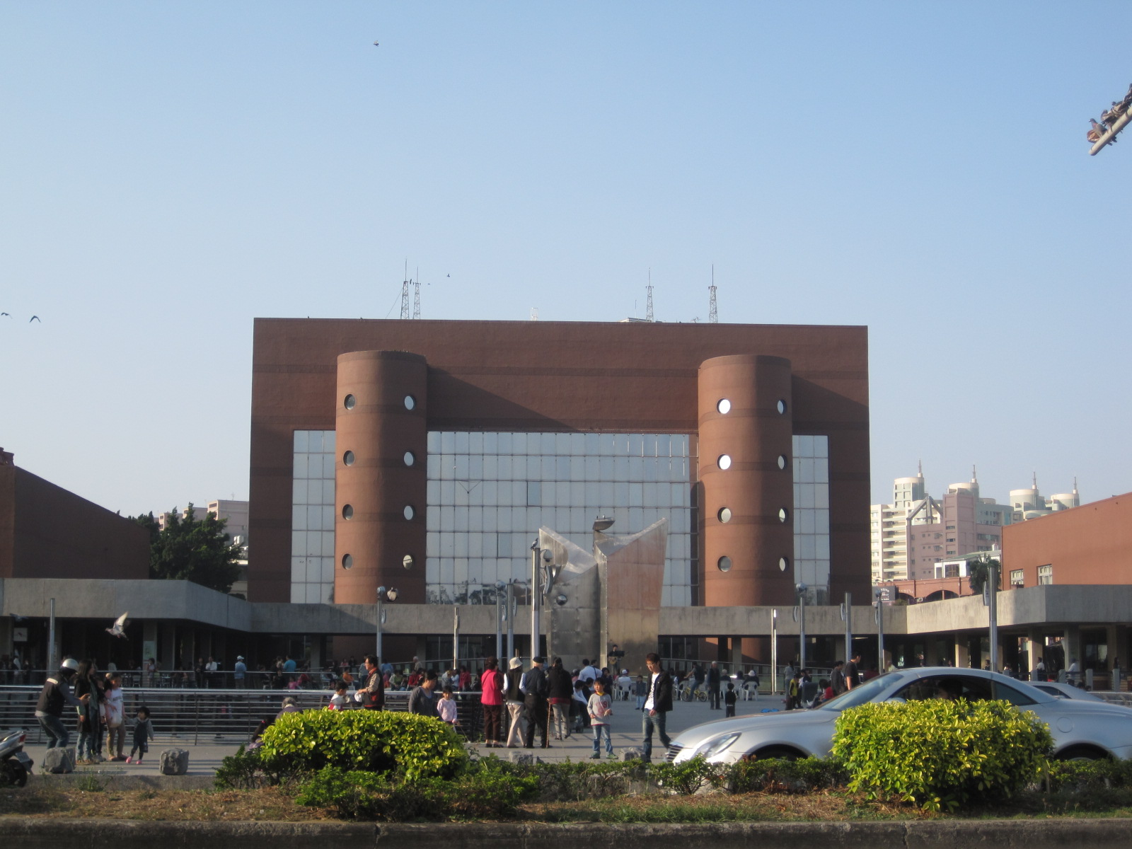 Tainan Municipal Cultural Center